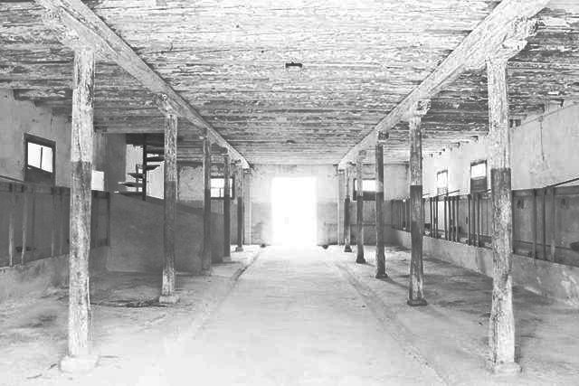 Art Aia studio